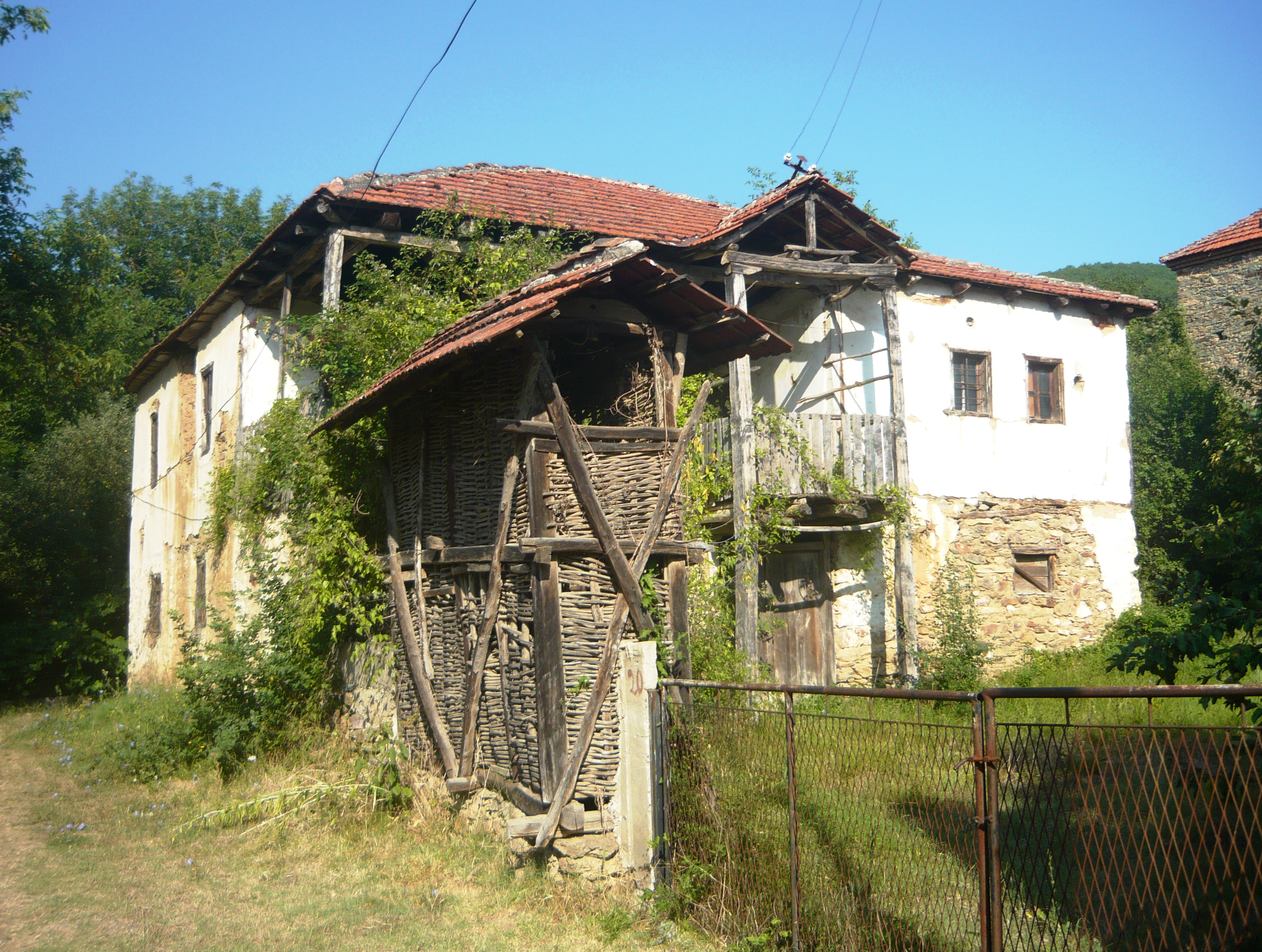 Old hause in Rakitnica, Demir Hisar